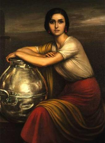 La Fuensanta by Julio Romero de Torres, 1929, private property.